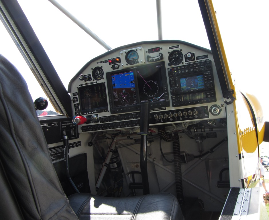 Aviat Husky A1C Cockpit